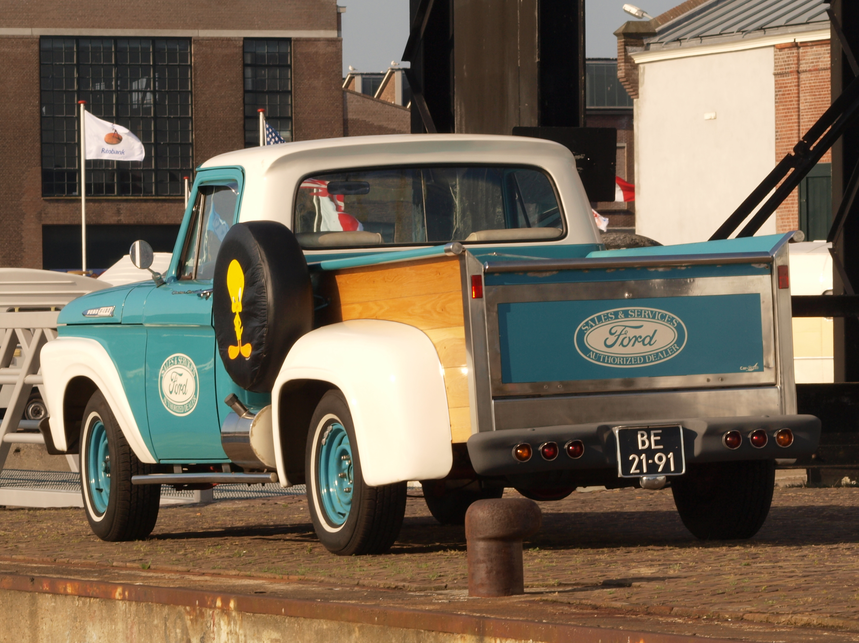 Photographed at Den Helder, The Netherlands. OLYMPUS DIGITAL CAMERA